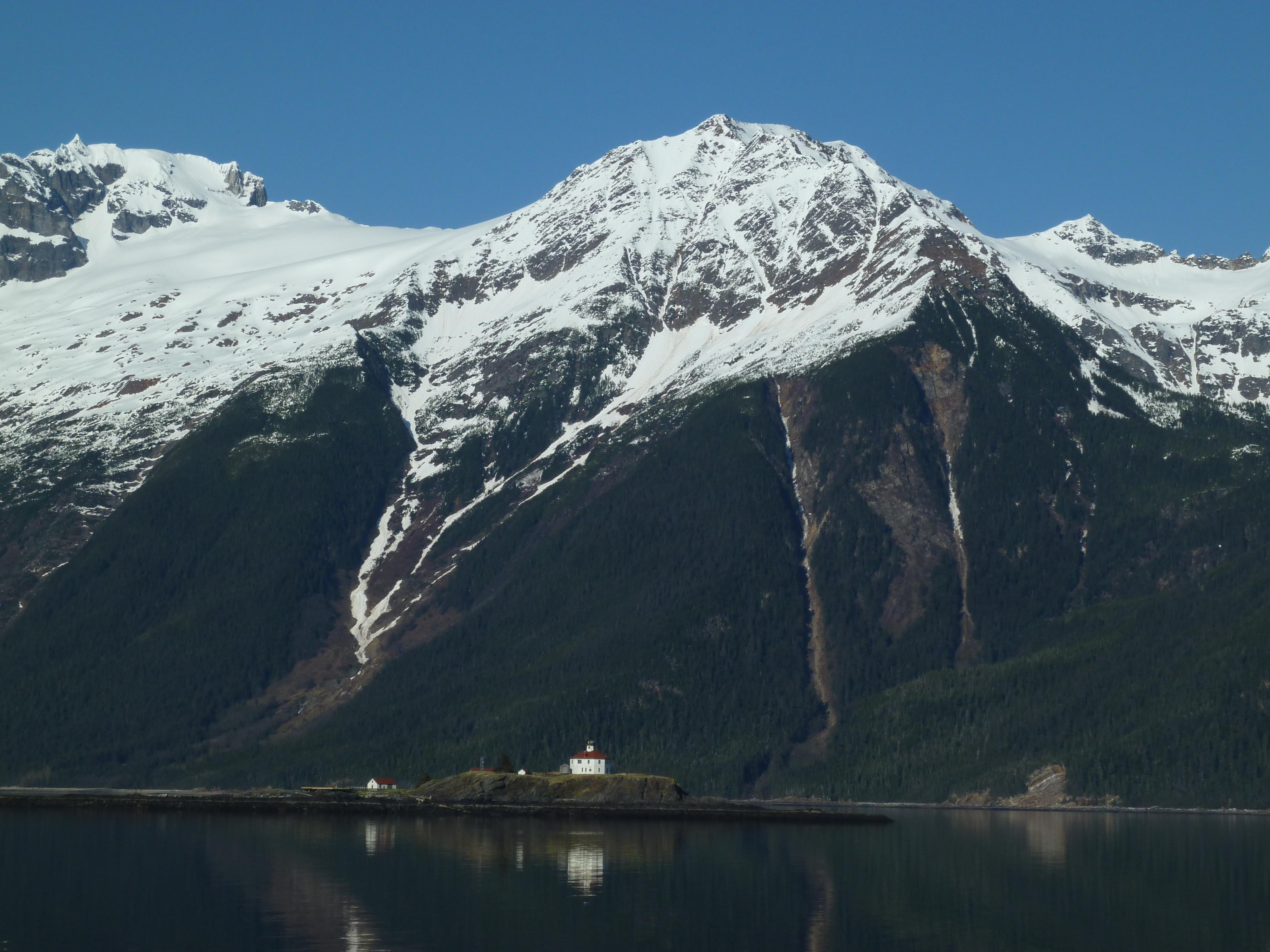 Eldred Rock Light in Lynn Canal, showing a few of the numerous avalanche chutes on the shores of the Lynn Canal